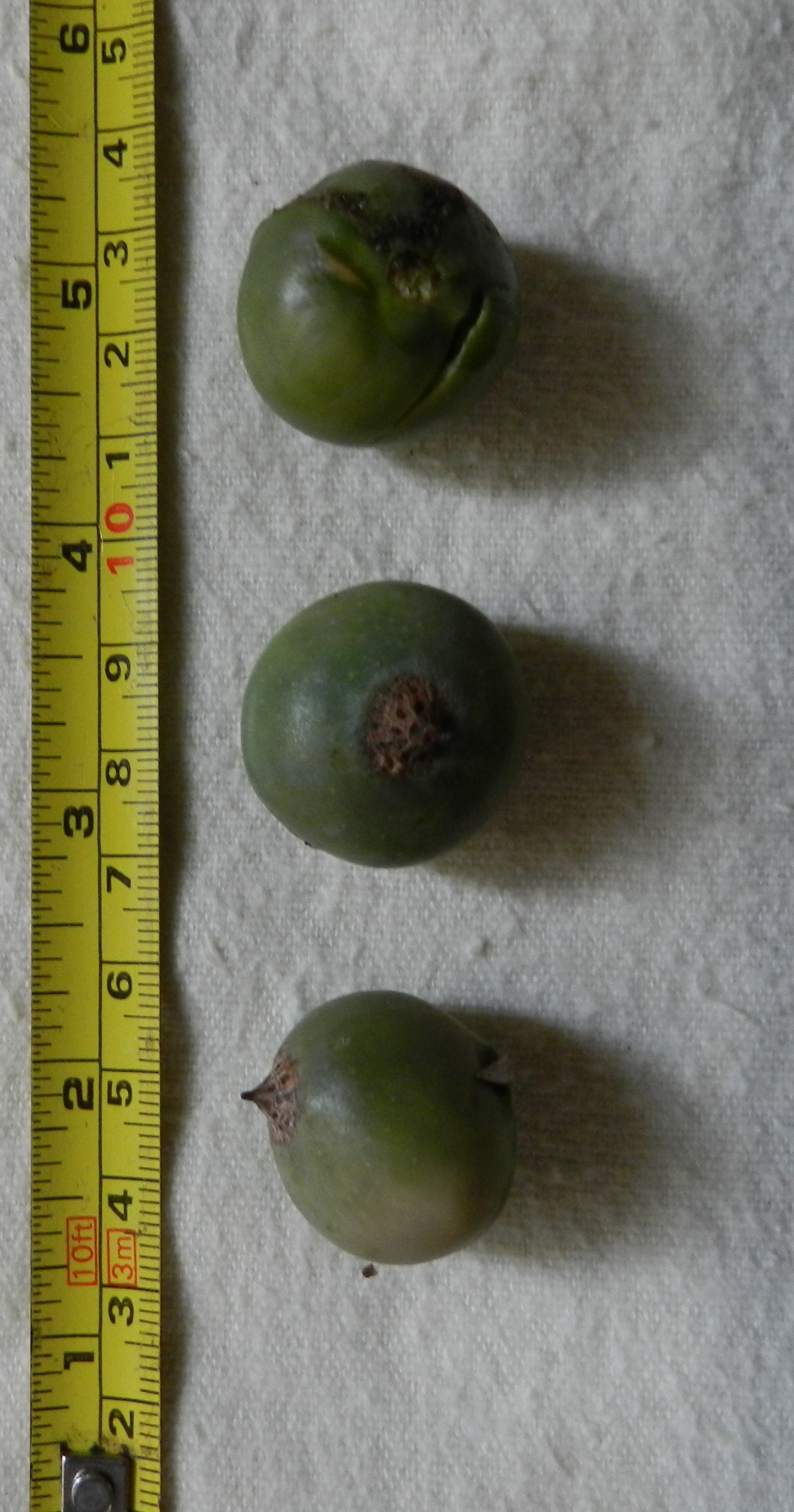 Tempisque tree fruits